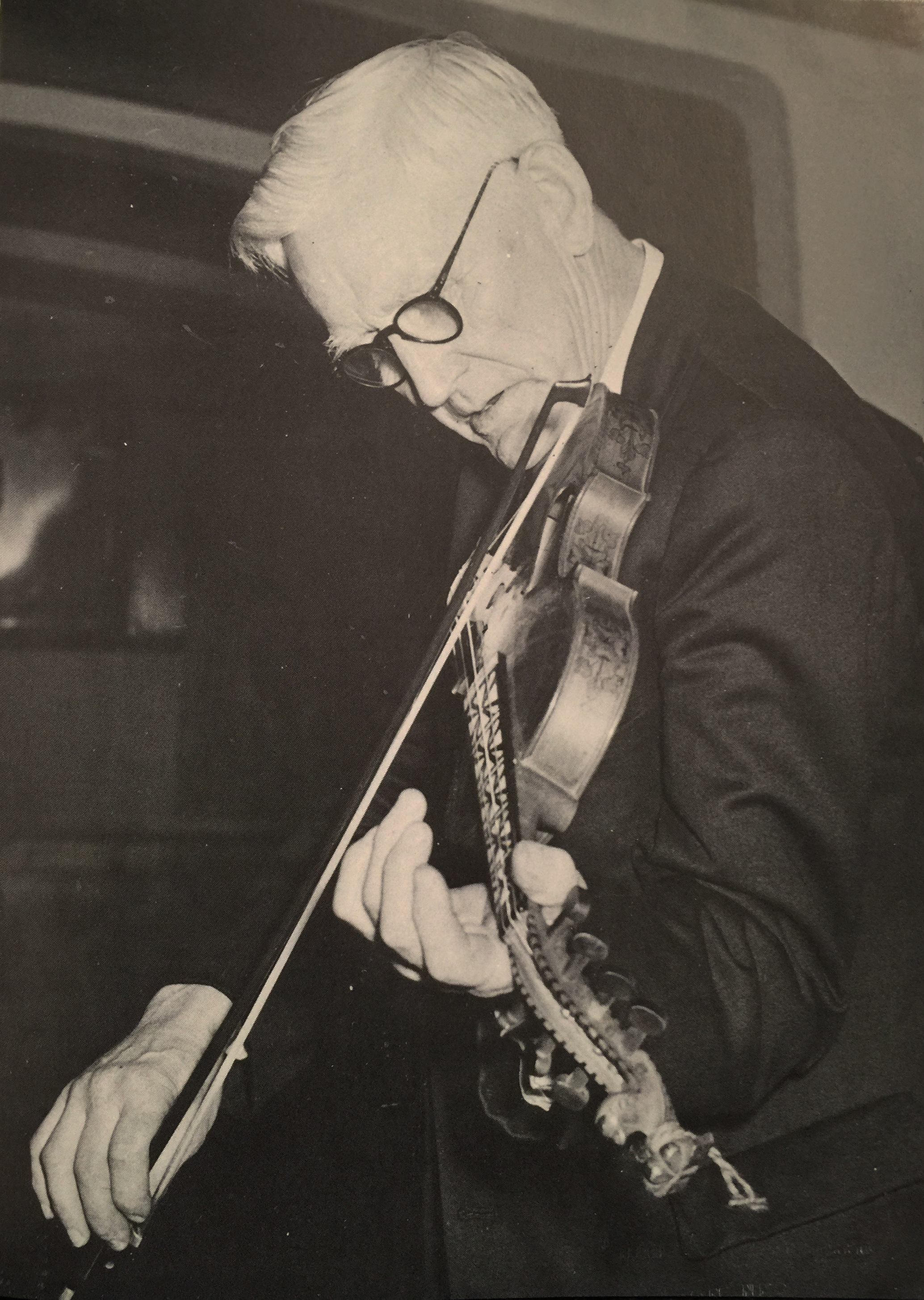 The Norwegian amateur musician Thorvald Oftedal with a Hardanger fiddle